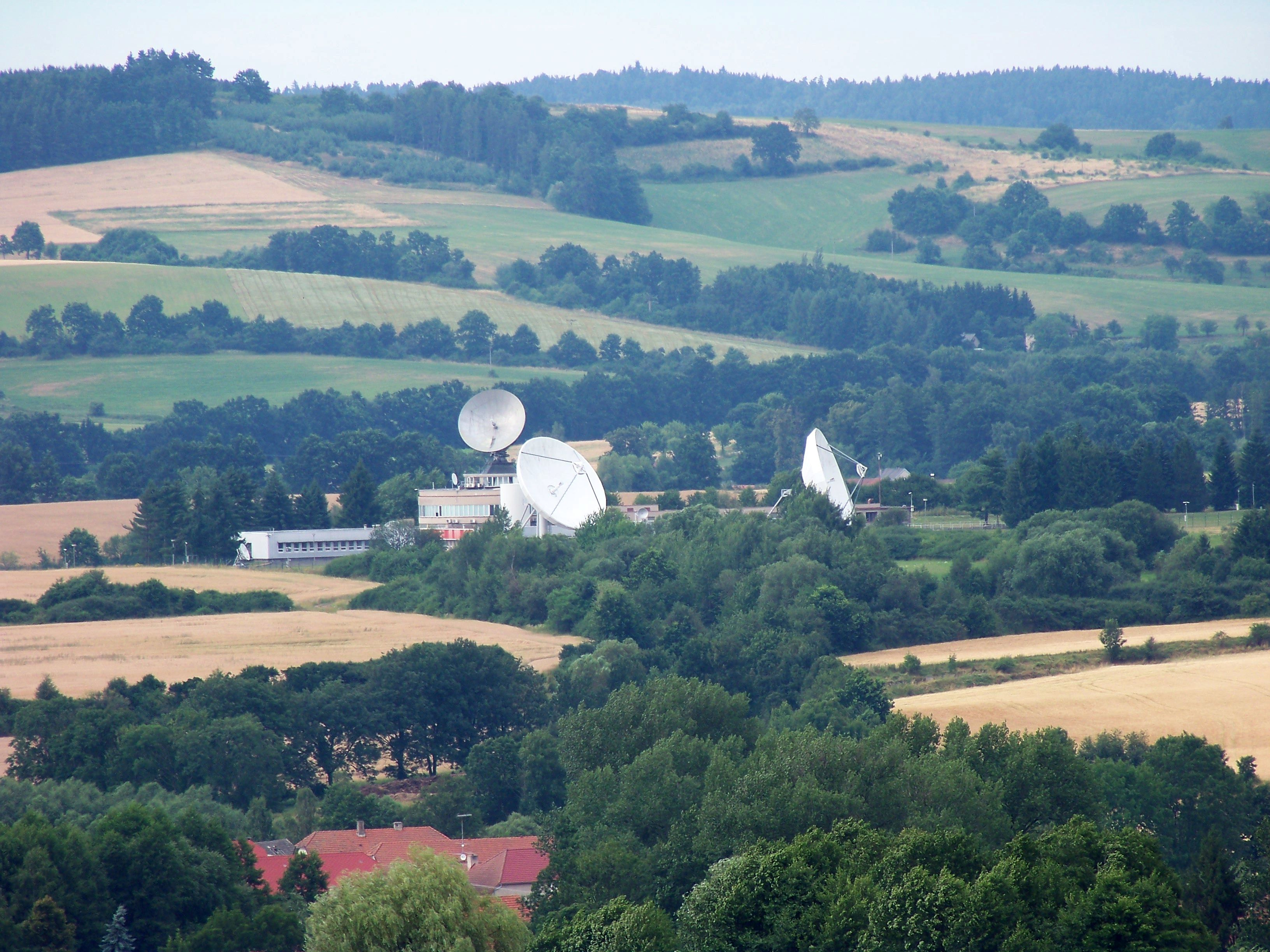 Sedlec-Prčice-Měšetice, Příbram District, Central Bohemian Region, the Czech Republic. Radiocommunication centre.